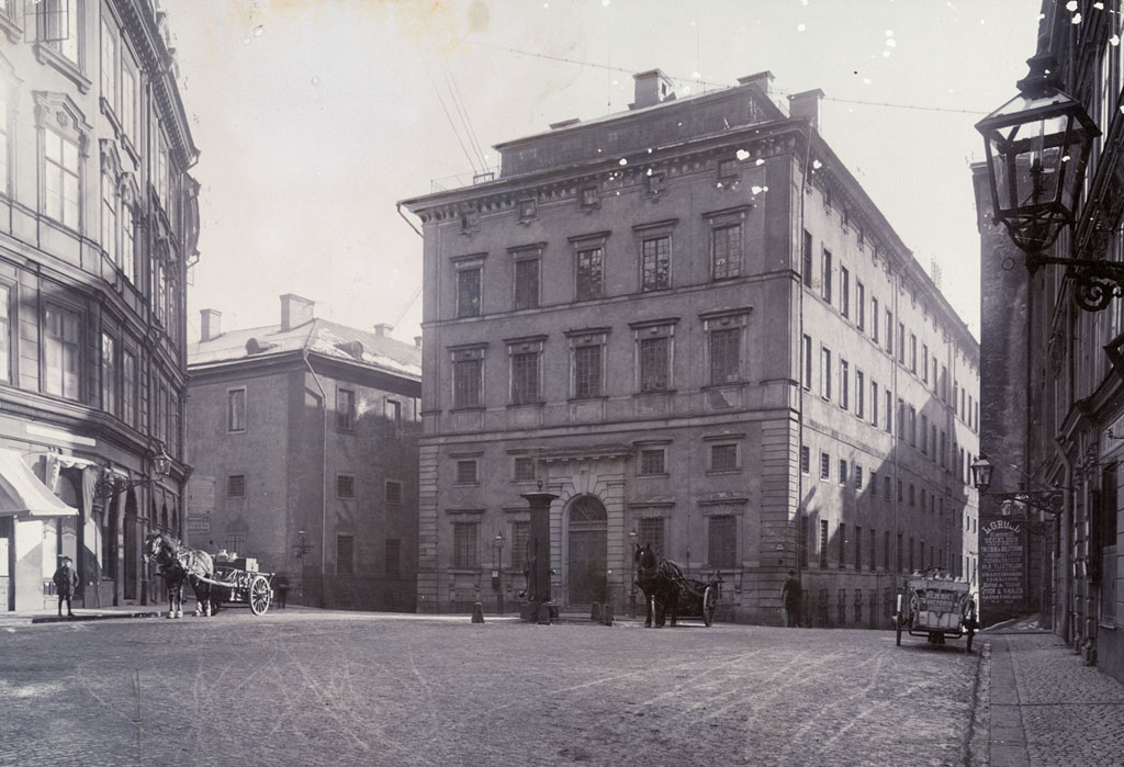 The Old National Bank (The Southern Bank Building) at Järntorget (The Iron Square) in the Old Town. The house was built for the bank in 1675-1682. Format: Albumen print